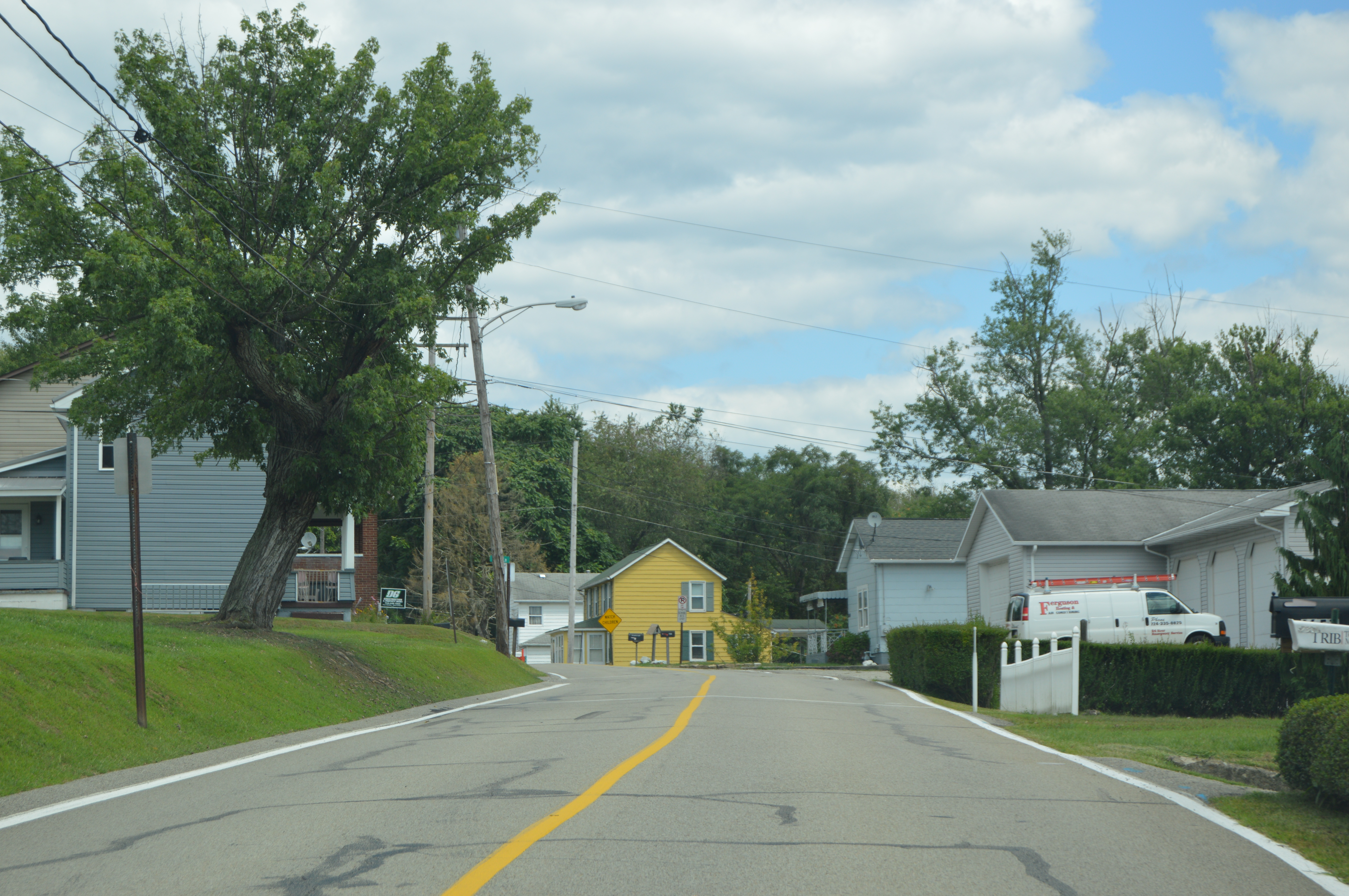 Main Street in West Leechburg, Pennsylvania, United States, looking north from Pleasant Hill Road.